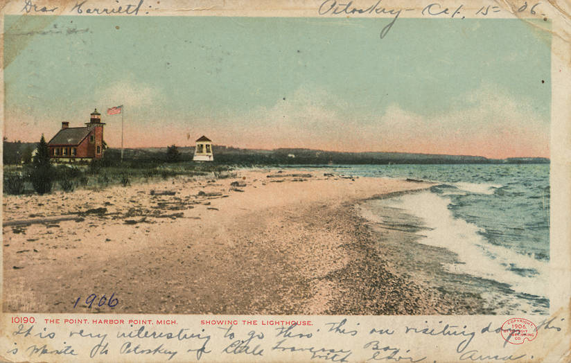 The Point, showing the lighthouse